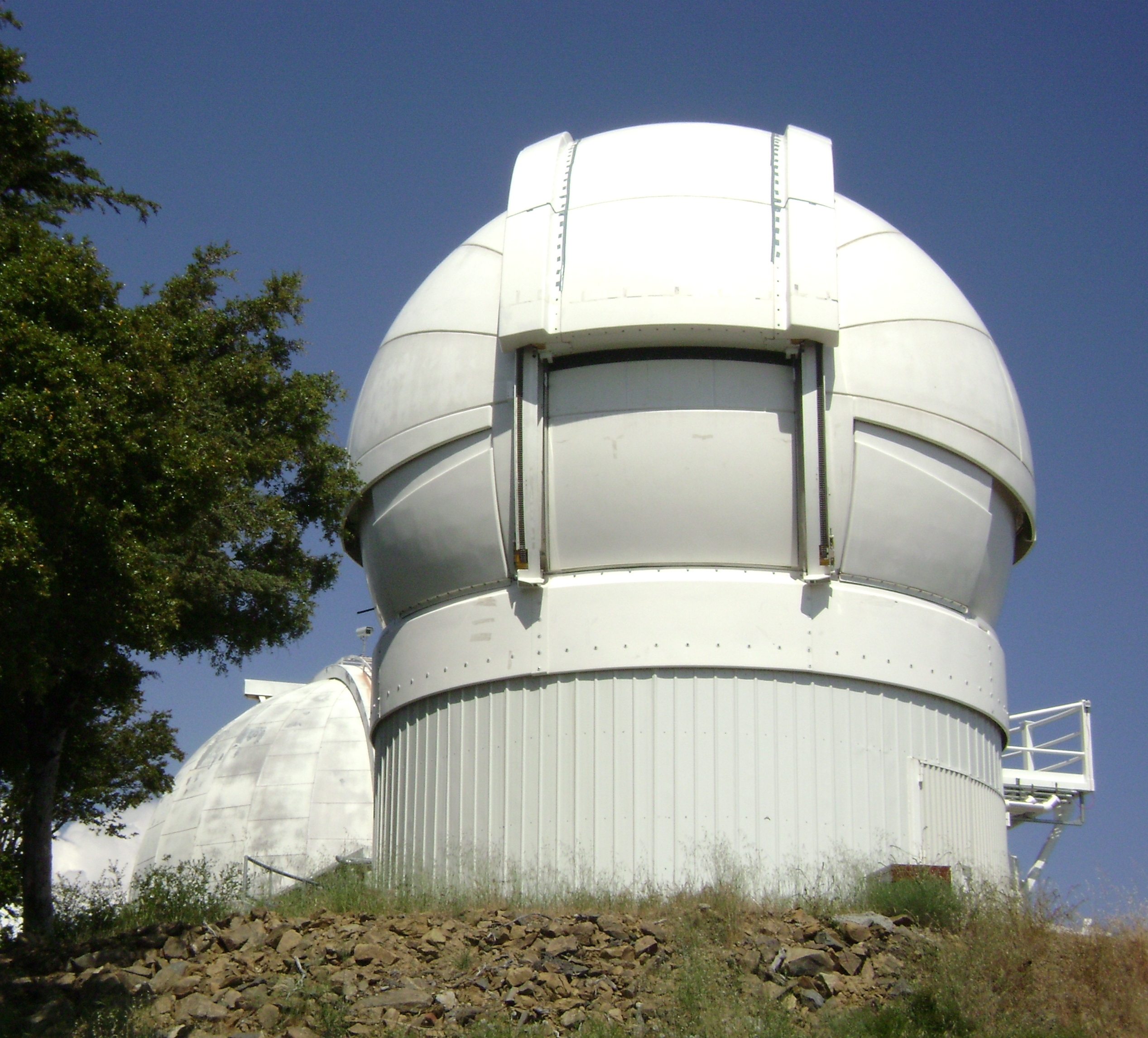 The dome containing the Automated Planet Finder telescope at the Lick Observatory, with the Carnegie Double Astrograph dome in the background.